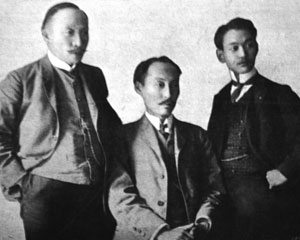 Yi Tjoune, Sangsul Yi and Tjyongoui Yi (Hague Secret Emissary Affair)